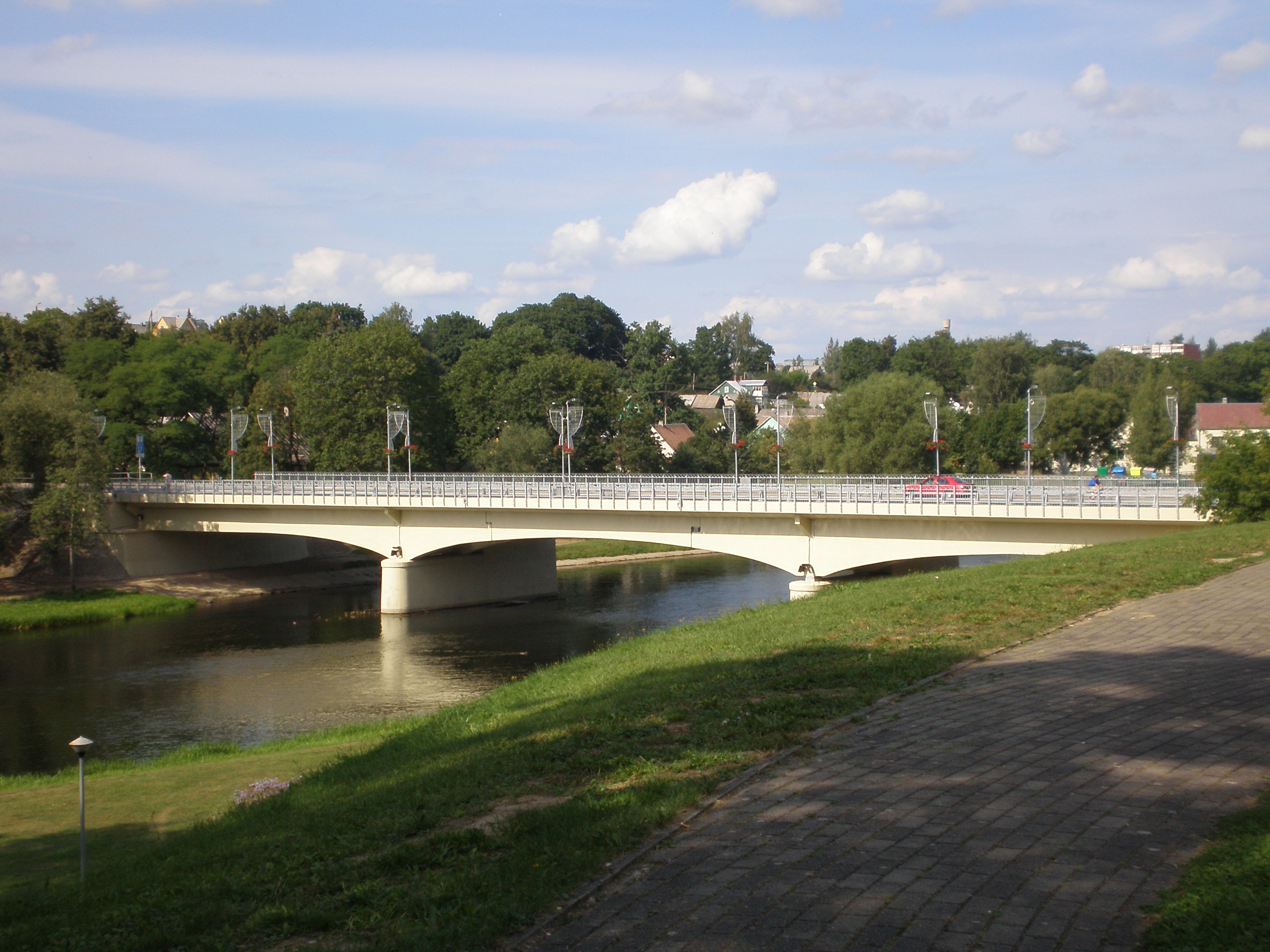 The bridge of Anykščiai